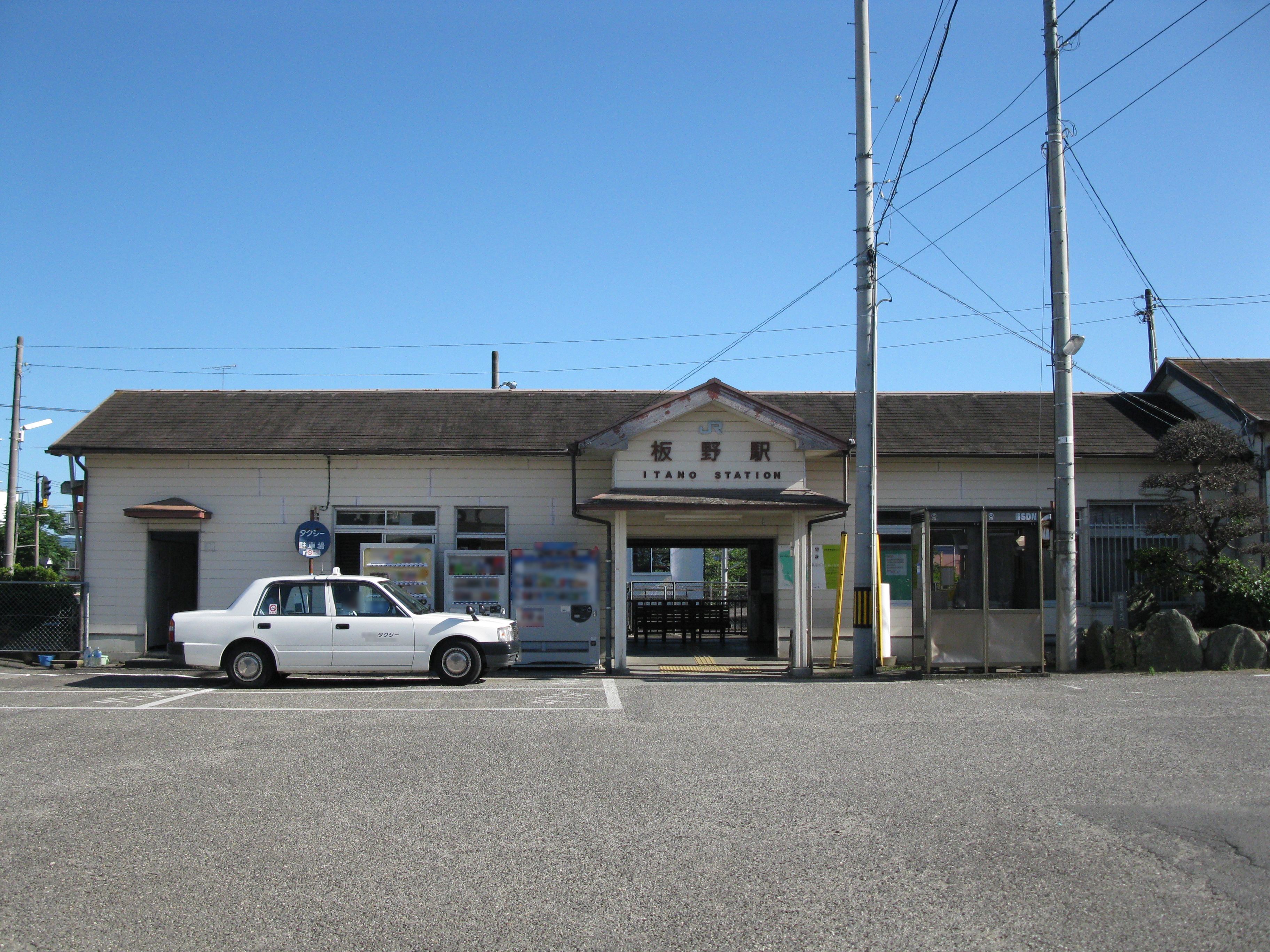 Itano Station building (Shikoku Railway(JR Shikoku) Kōtoku Line)